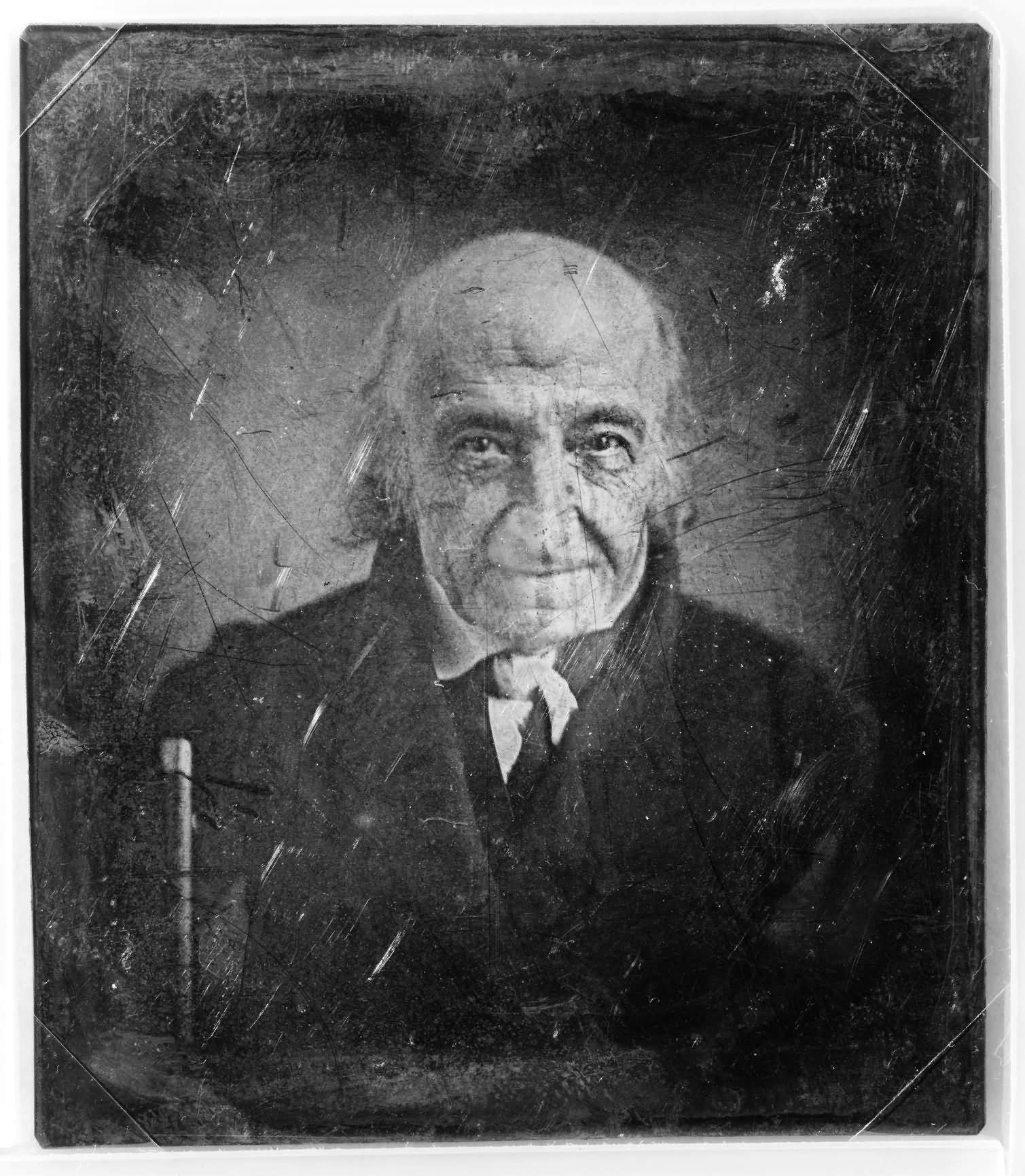 Daguerreotype of Albert Gallatin, Swiss-American politician and ethnologist (1761-1849) — head-and-shoulders portrait, facing front, with walking stick (daguerreotype, original probably by Anthony, Edwards & Co.)